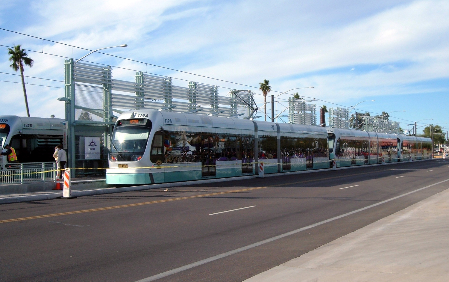 Photograph of the Tri-City (or Main at Sycamore) Station of METRO Light Rail that serves the Phoenix area, Arizona, USA. This photograph was taken during the light rail's grand opening celebration on December 27, 2008.